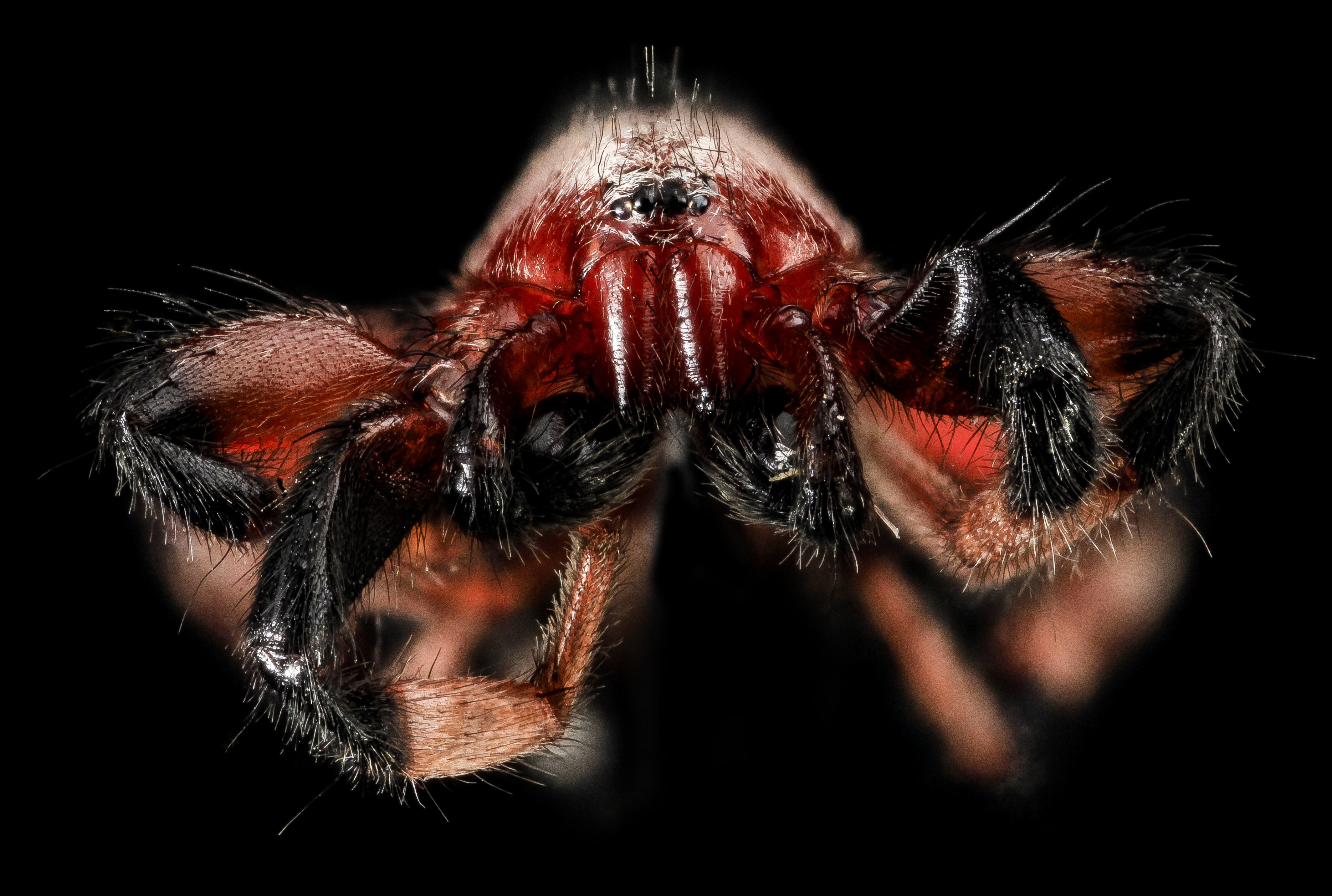 Sergiolus capulatus found by Wayne Boo in the lab....Identified by Jersey Bug, found in Beltsville, MD